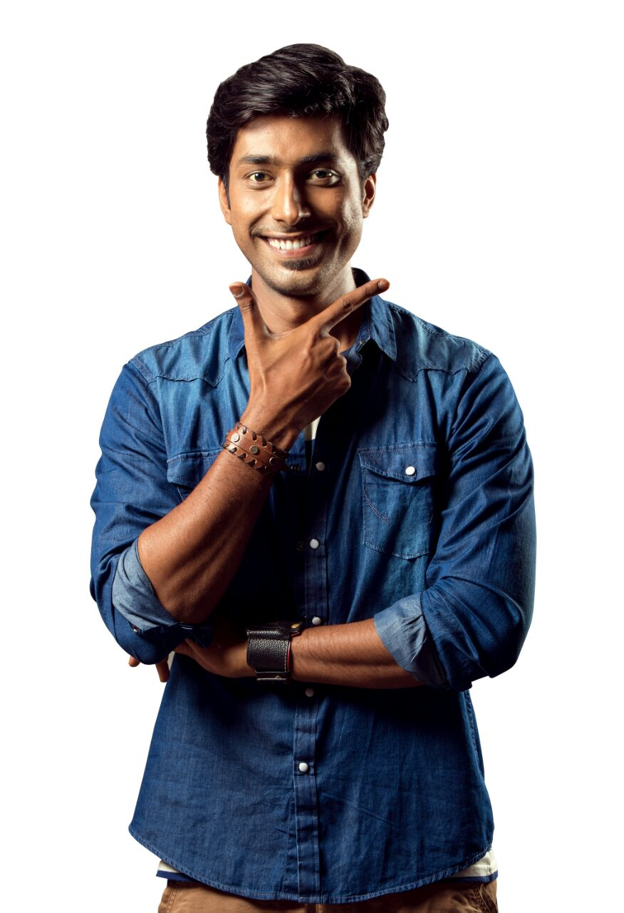 Rishi